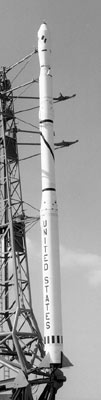 Scout B1 rocket with EOLE satellite.